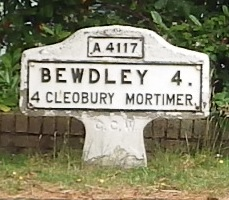 Milepost at Far Forest, Worcestershire, on the A4117 road.